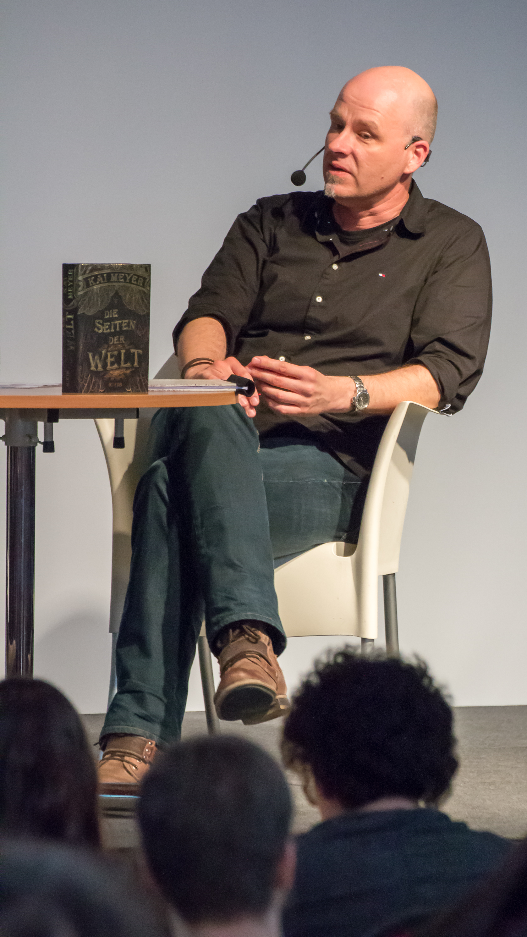 f